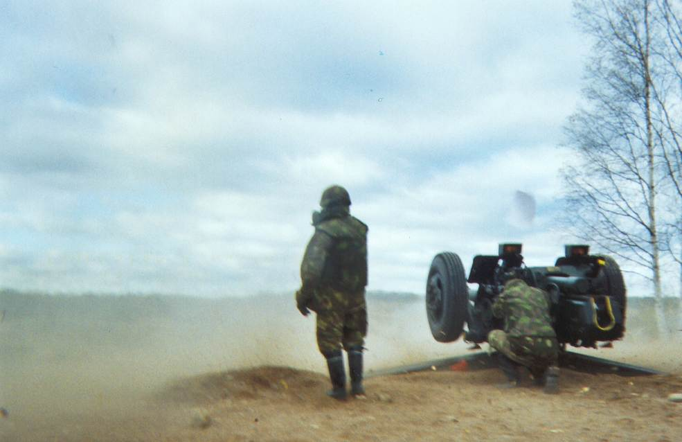 Finnish 122h63 howitzer firing